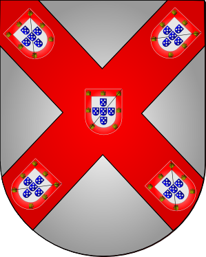 Alternative Arms of the House of Braganza since 1581. Made by JSobral